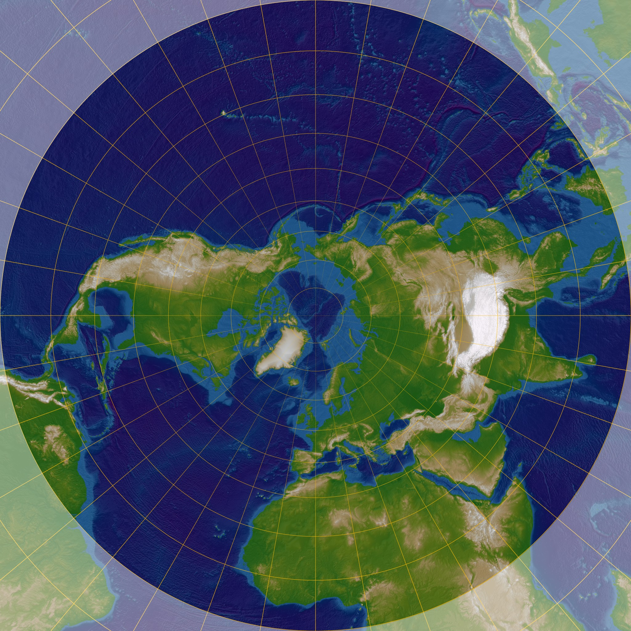 Polar stereographic projection. Map center is at 0° E, 90° N (north pole). The marked circle covers the nothern hemisphere, the white-shaded areas are on the southern hemisphere.